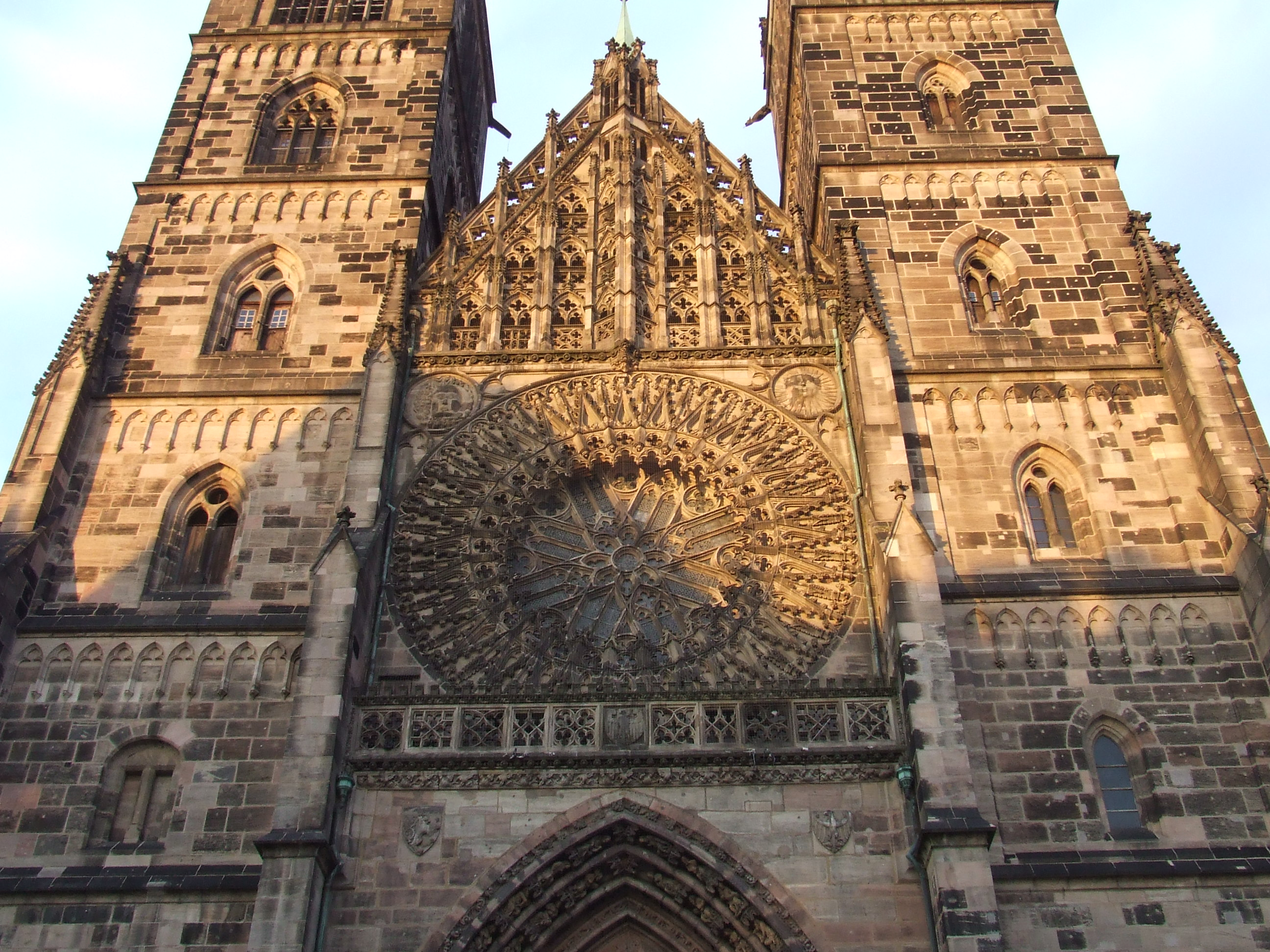 St. Lorenz Cathedral